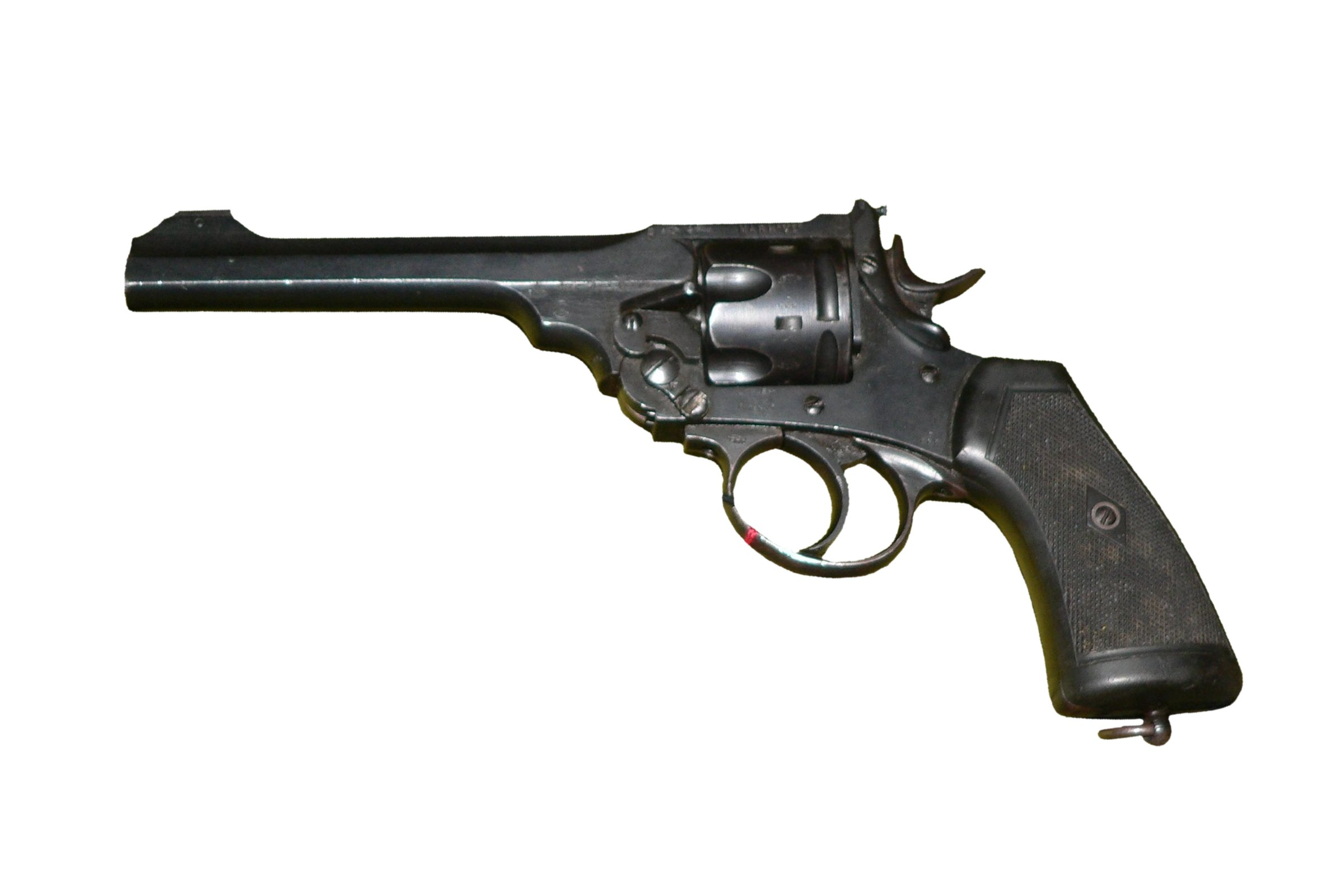 Webley & Scott Mk VI. Caliber .455